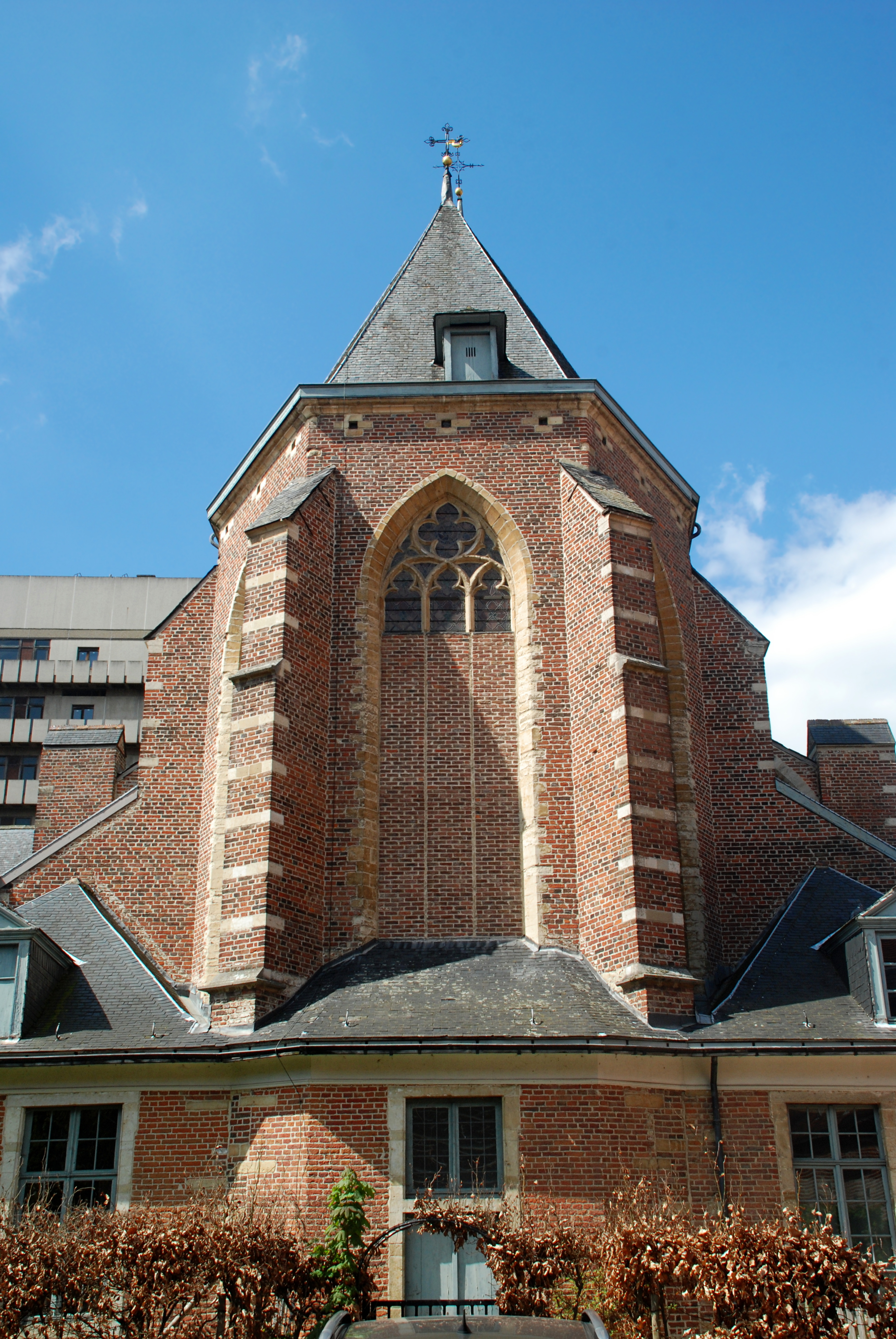 Belgium - Leuven - Chapel of the Romanesque Portal